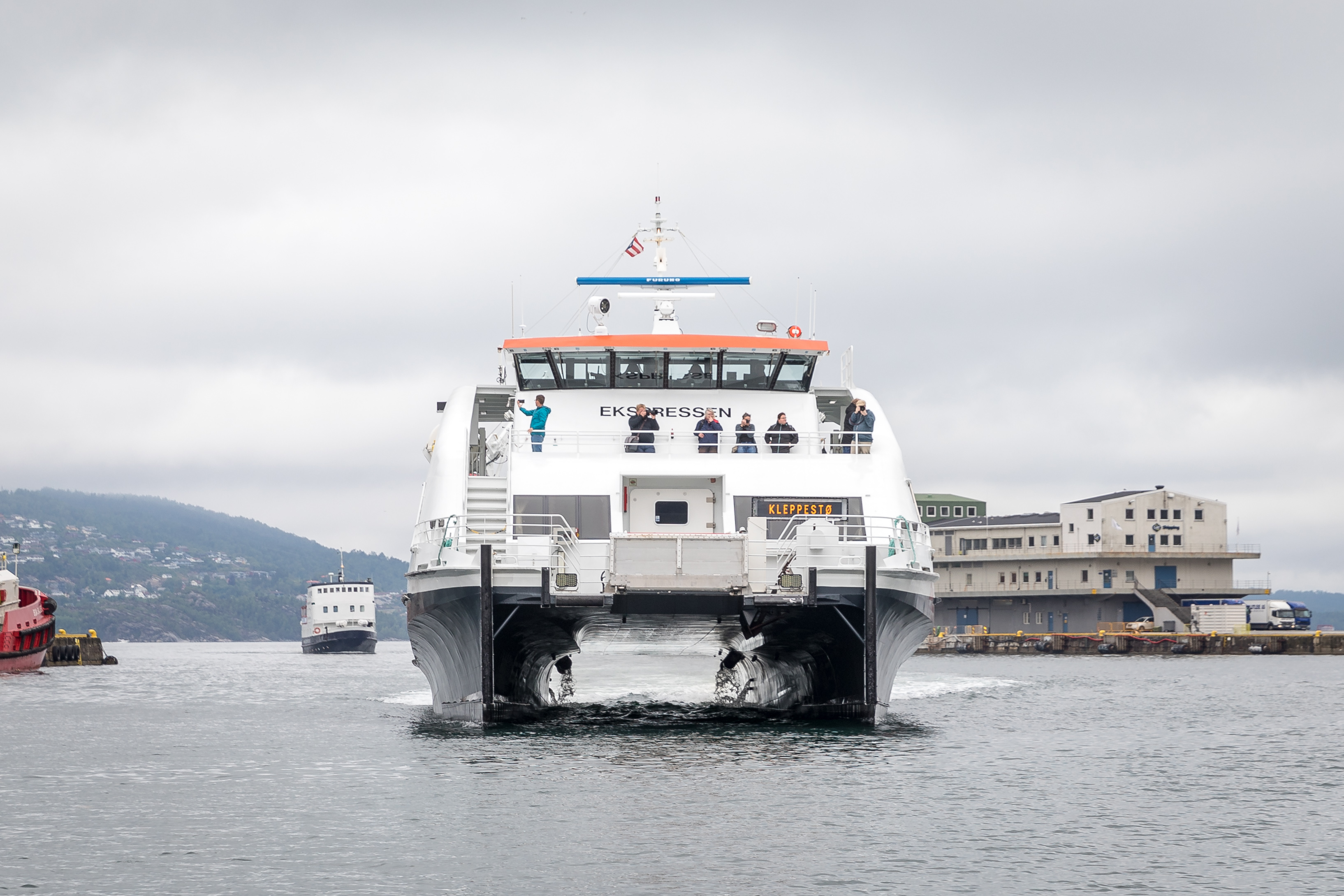 MS «Ekspressen». From Fjordsteam 2018. The maritime heritage festival took place between August 2 and August 5 2018 in Bergen, Norway.